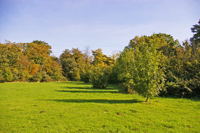 Trent Park, London N14 Looking east in Trent Park from near the entrance opposite Oakwood Station.